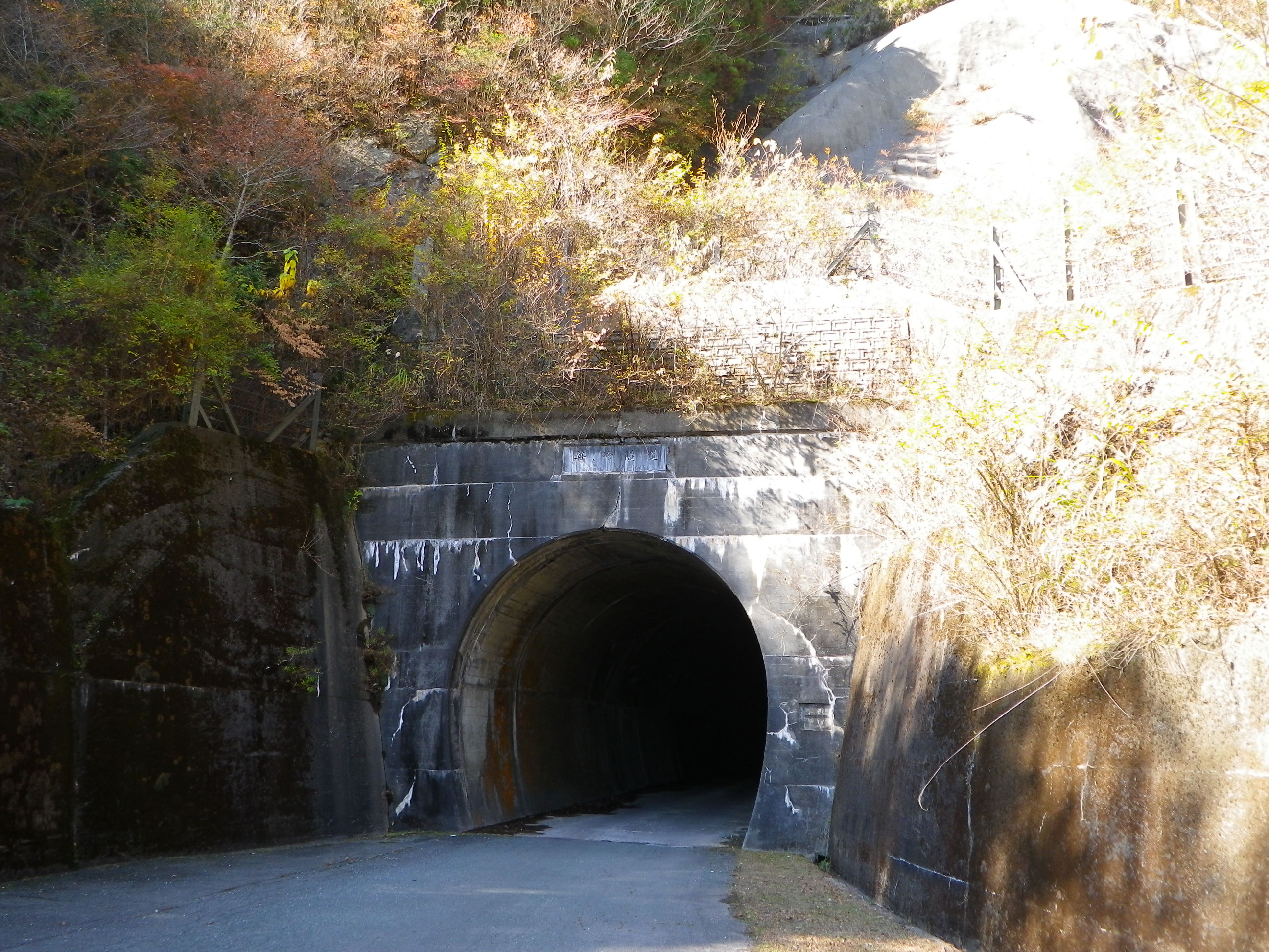 Old_Sasagamine_tunnel